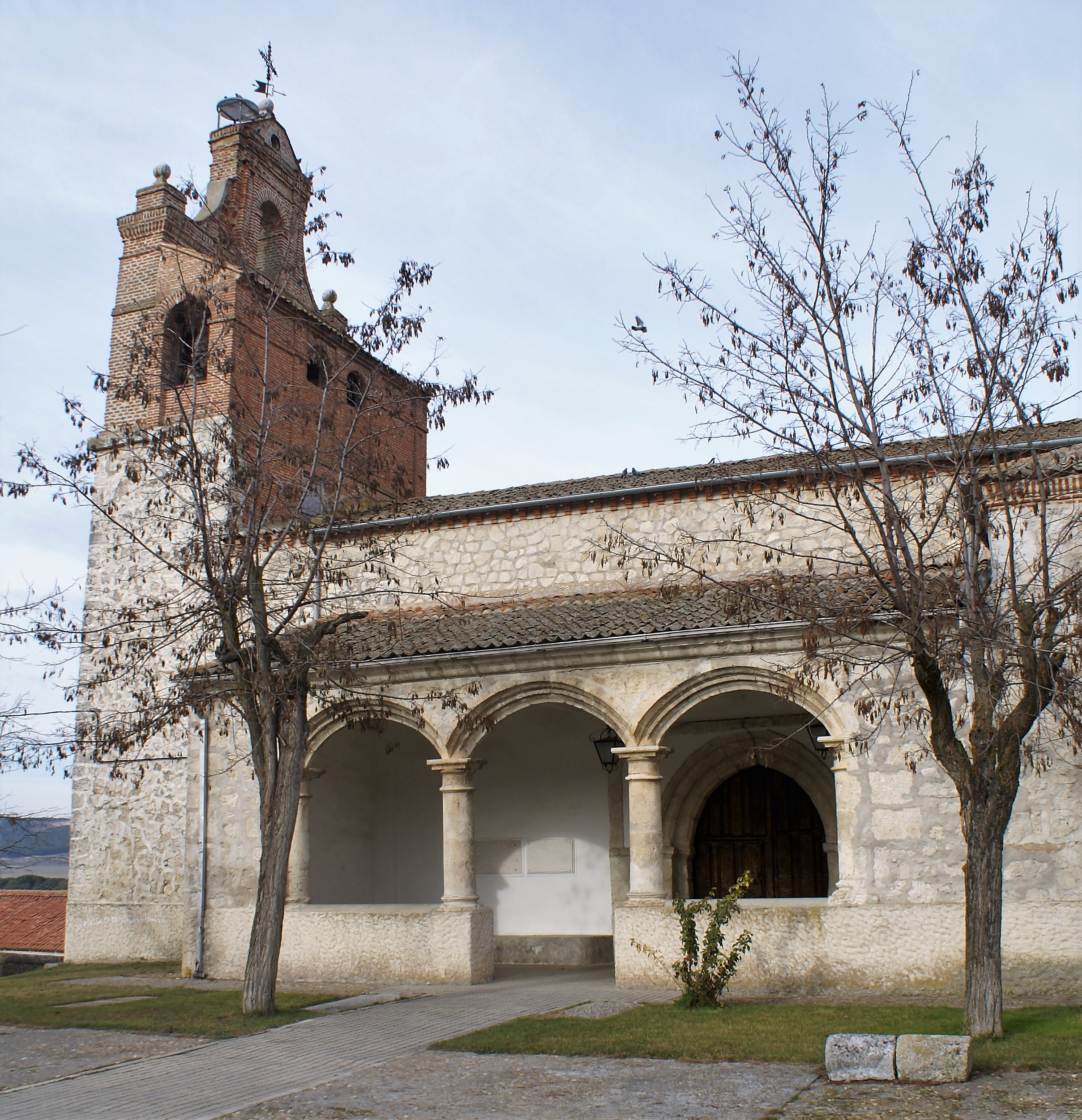 Church of St. James the Apostle, Megeces, Valladolid, Spain.